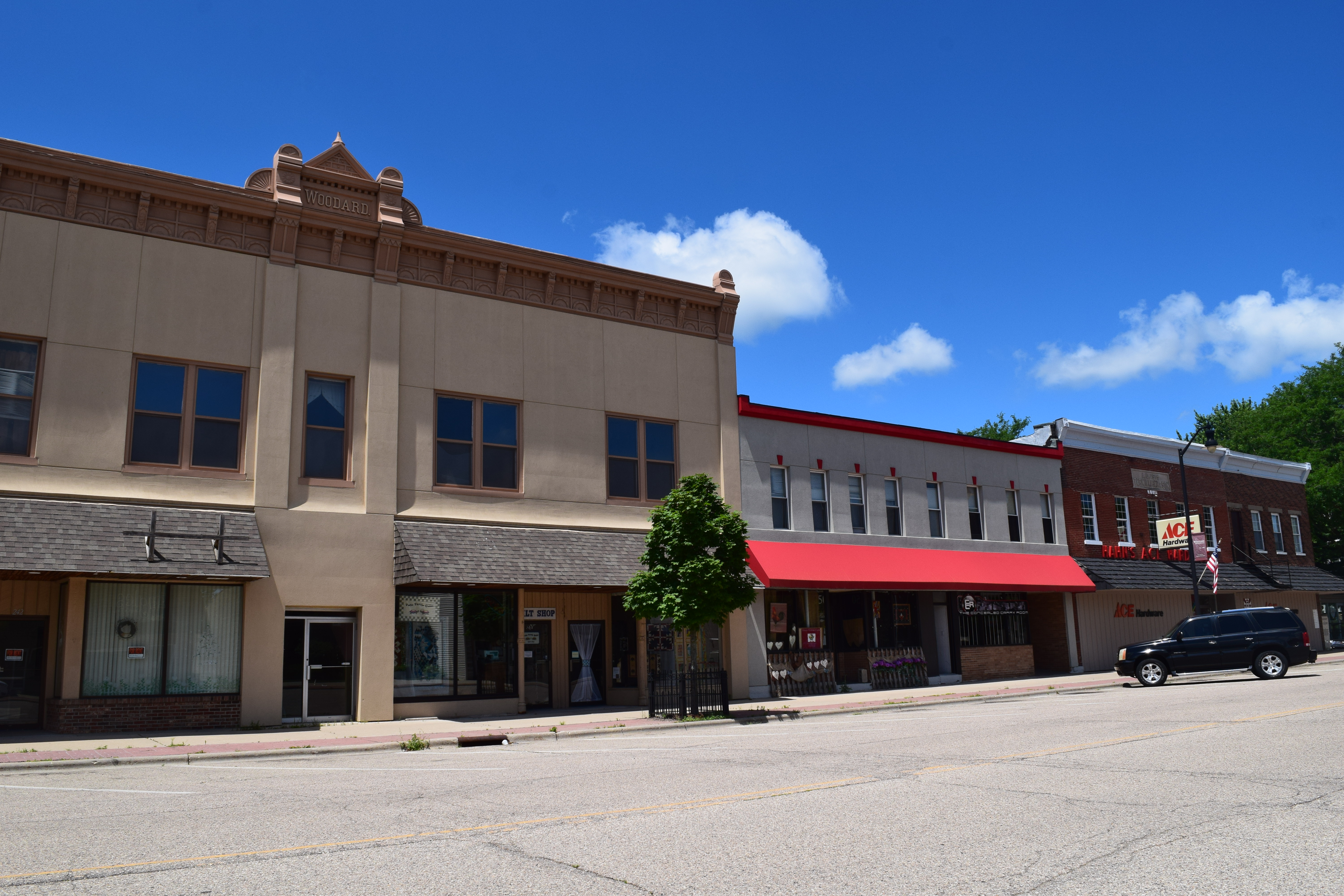 Buildings in the downtown area of the village of Clinton, Wisconsin.